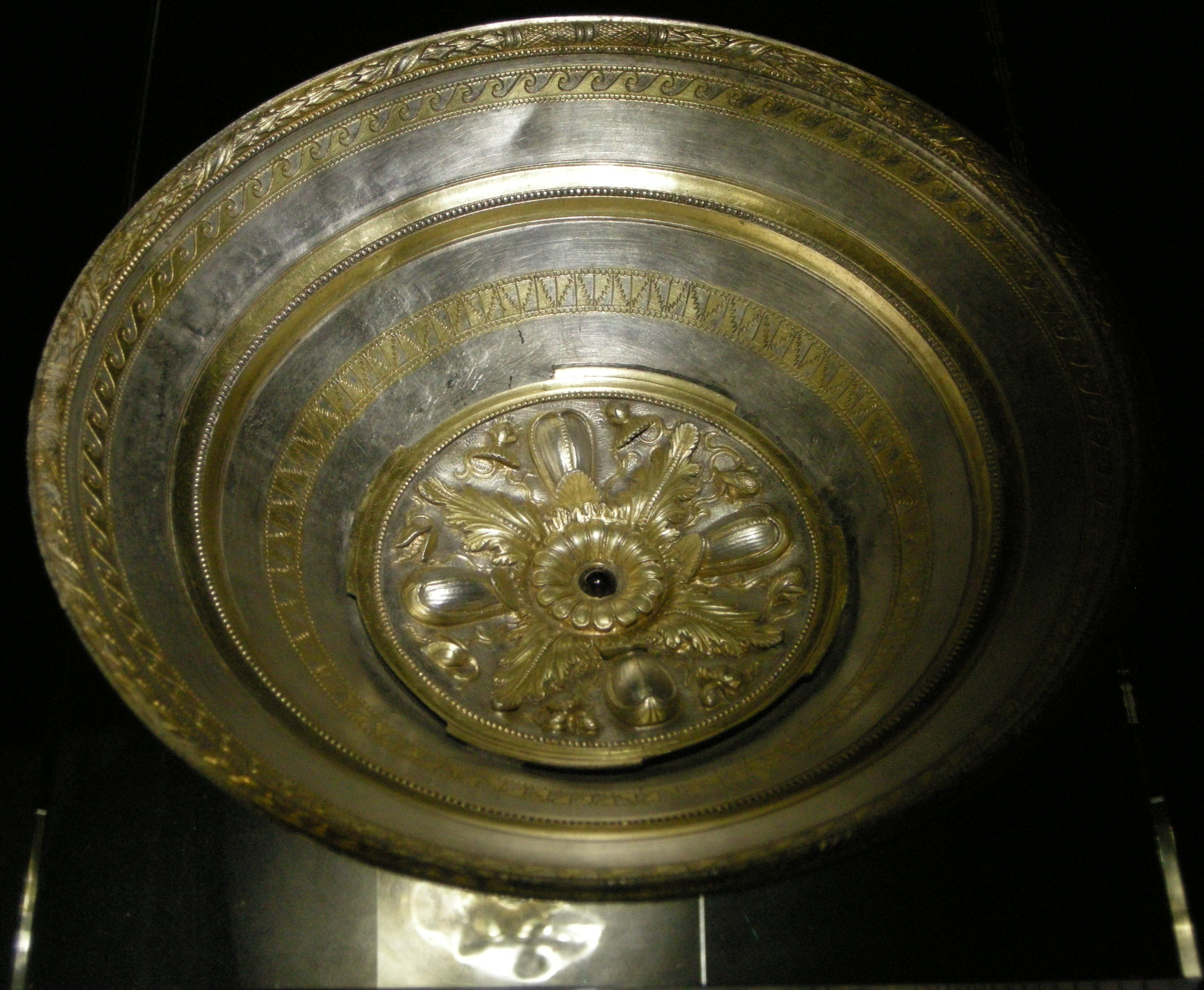 read filename please (it)